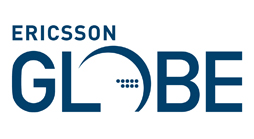 The logo for Ericsson globe arena